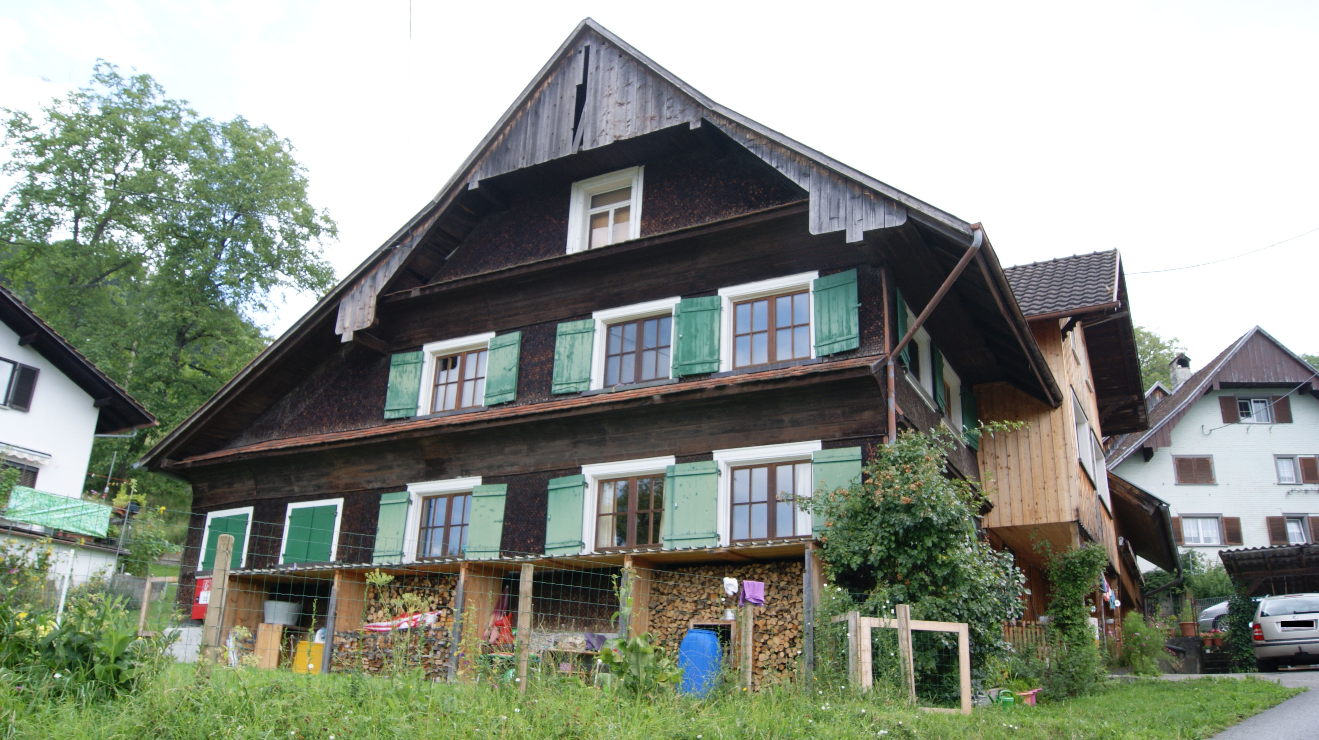 Hill "Unterfallberg" in Dornbirn, Vorarlberg, Austria. House Unterfallenberg No. 4.